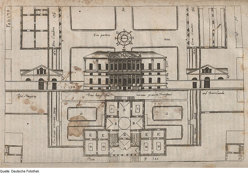 Original image description from the Deutsche Fotothek Architektur & Profanbau & Landhaus & Villa Project for Villa Trevisan in San Donà di Piave